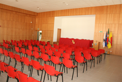 AHBVPA-Auditorio